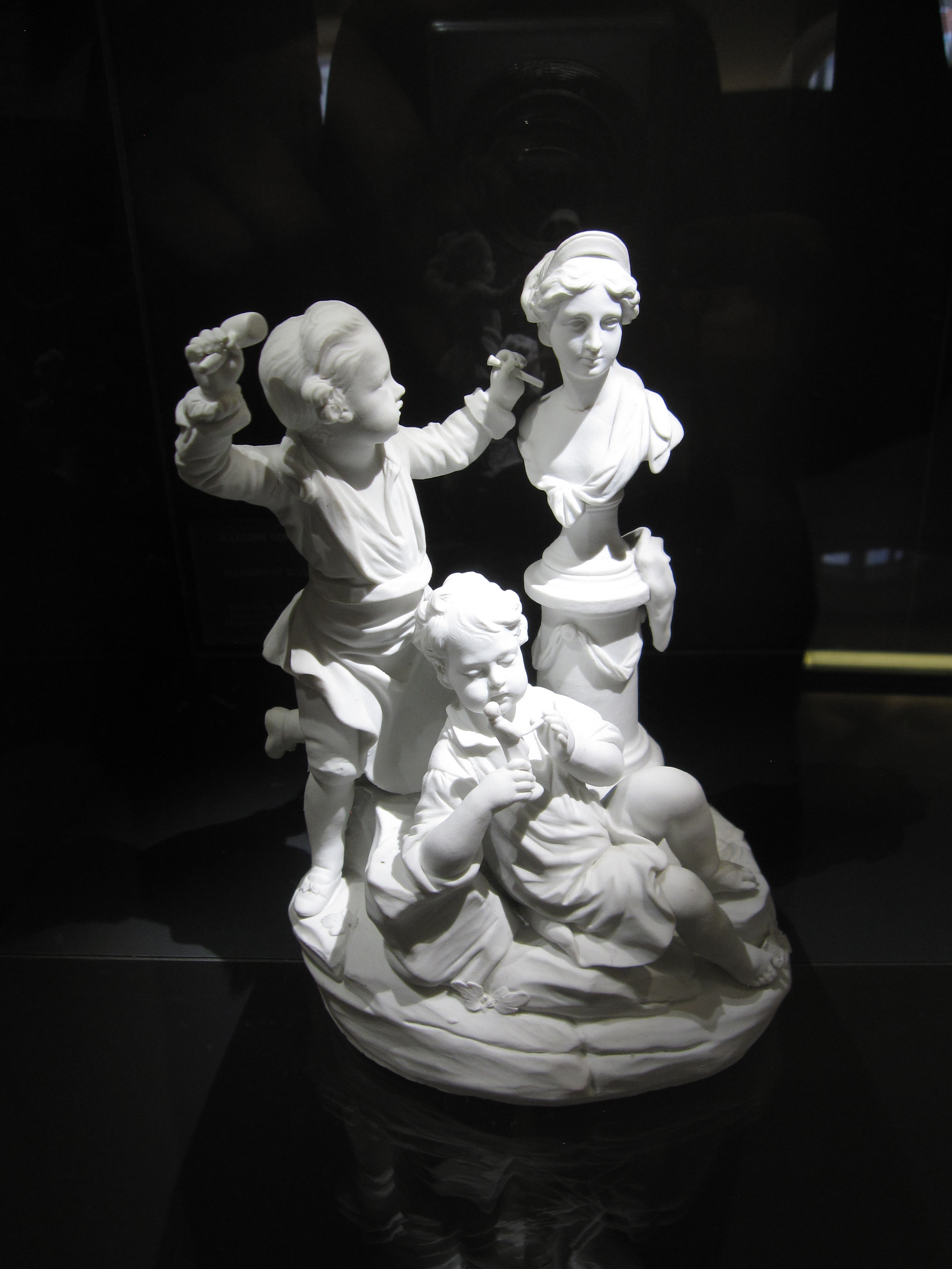 Allgeory of Sculpture. Imperial Manufactory. Vienna, 1770. Porcelain Museum Augarten.